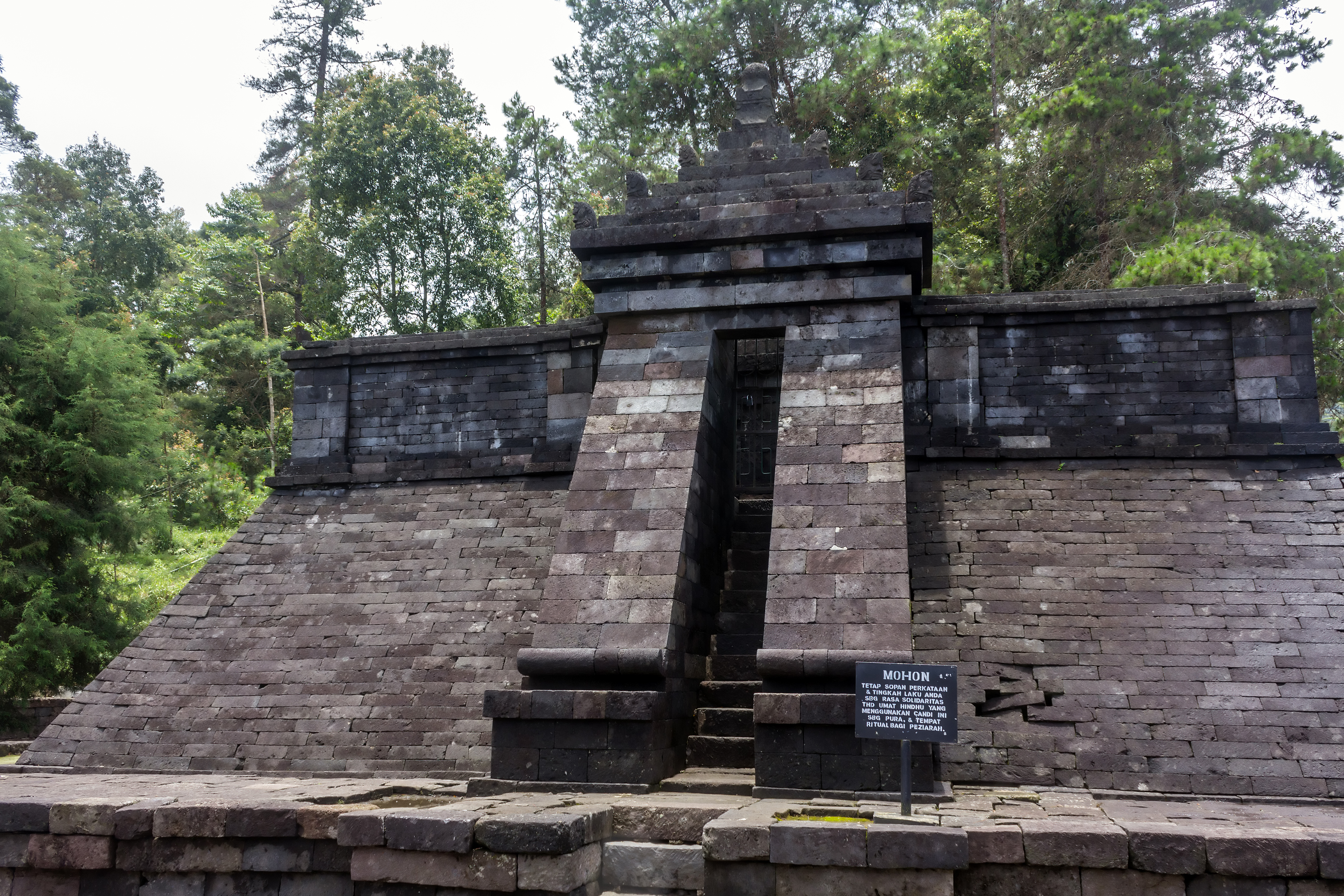 Roadway away from Cetho Temple, 2016-10-13